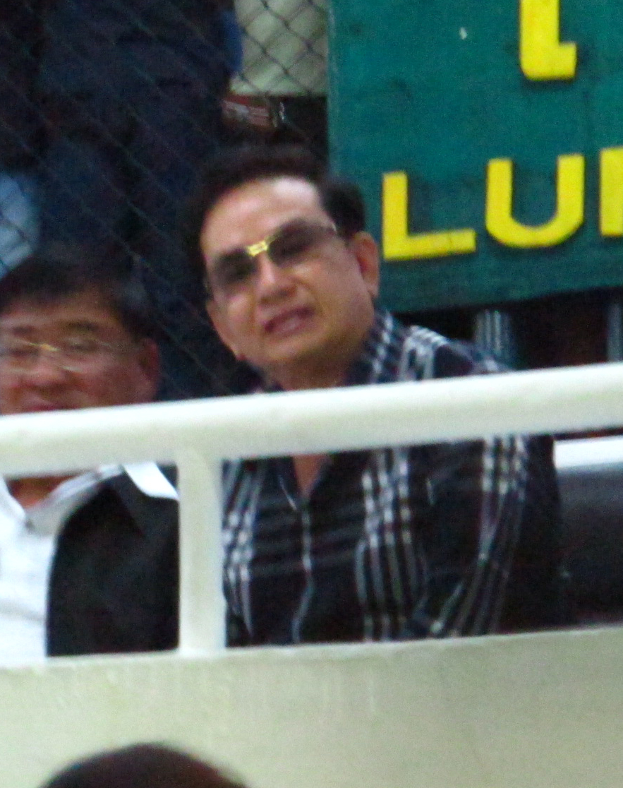 Songchai Ratanasuban at Lumpini Stadium